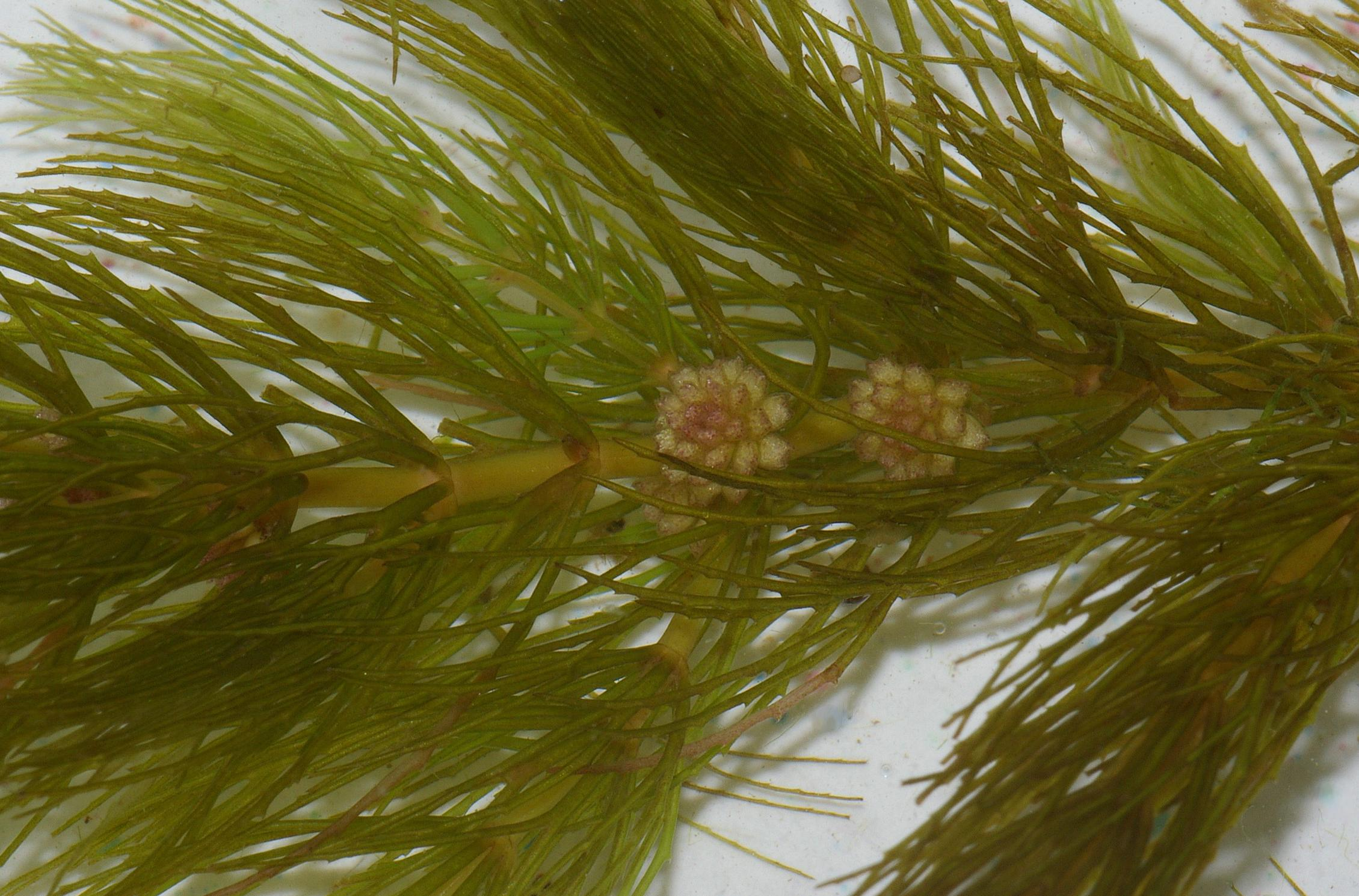 Ceratophyllum demersum with male flowers, which can be seen quite rarely.